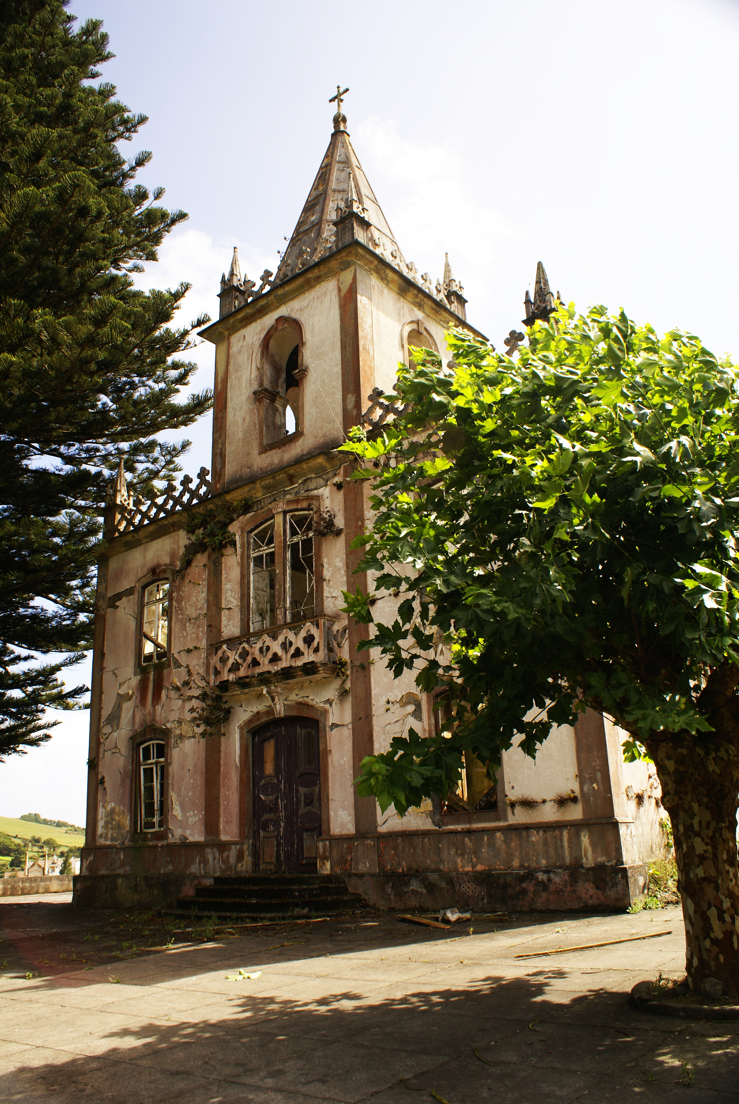 Igreja de São Mateus, Ribeirinha, concelho da Horta, ilha do Faial, Açores, Portugal